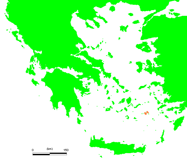 GR Astipalea.PNG (Greek island)